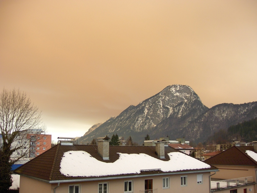 Dust of the Sahara over Kufstein/Austria, February 22, 2004